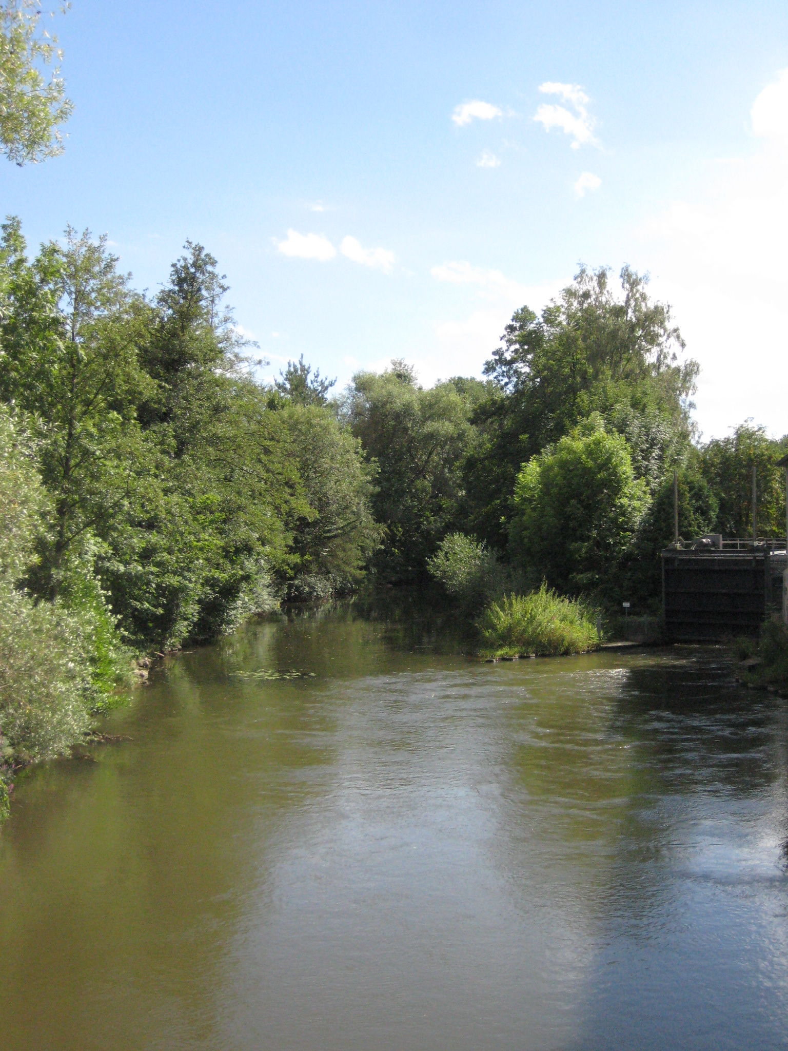 River Paar near Manching, Germany.